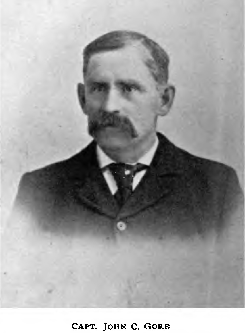 photograph of John C. Gore, steamboat captain